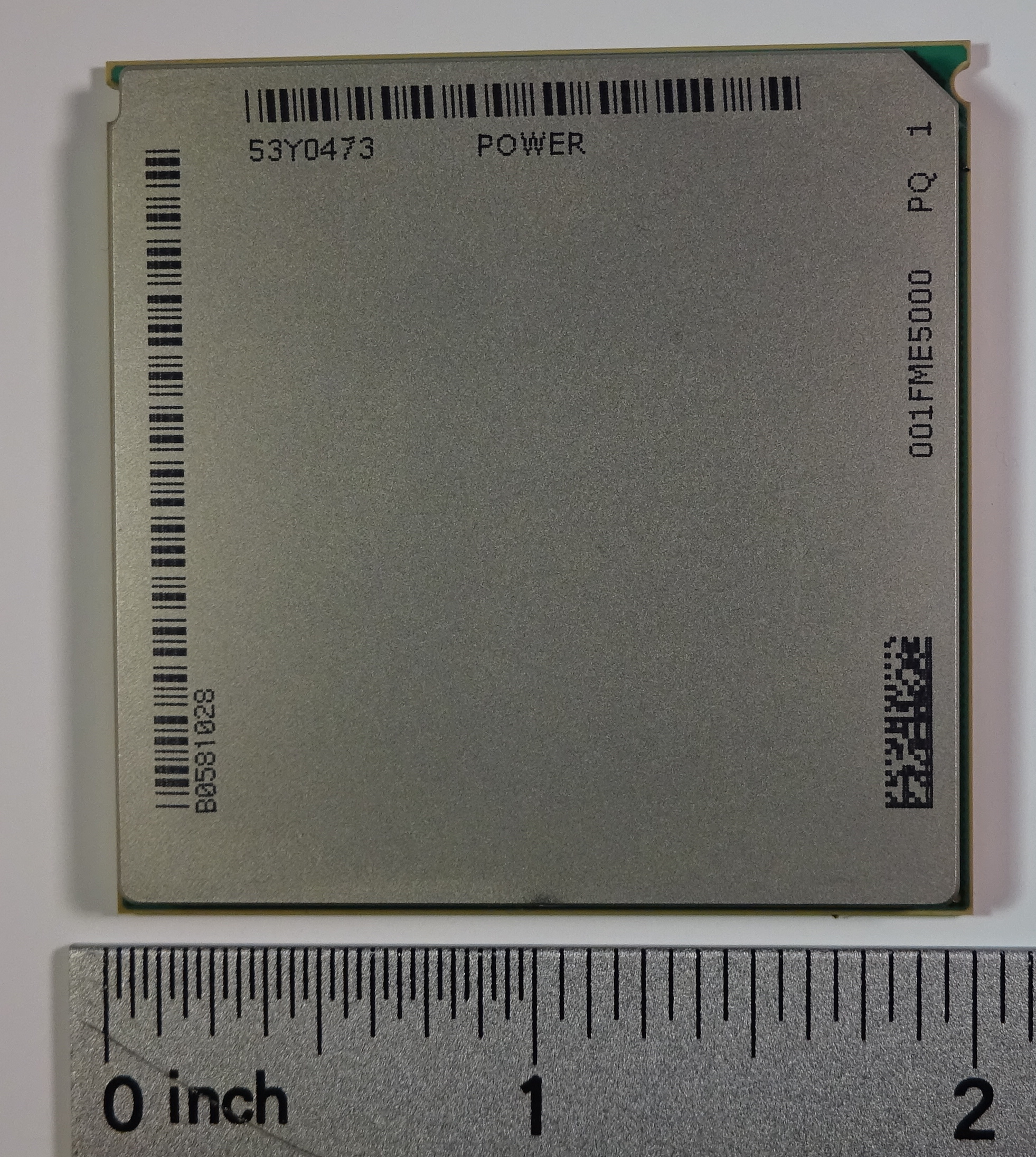 IBM Power6 CPU top